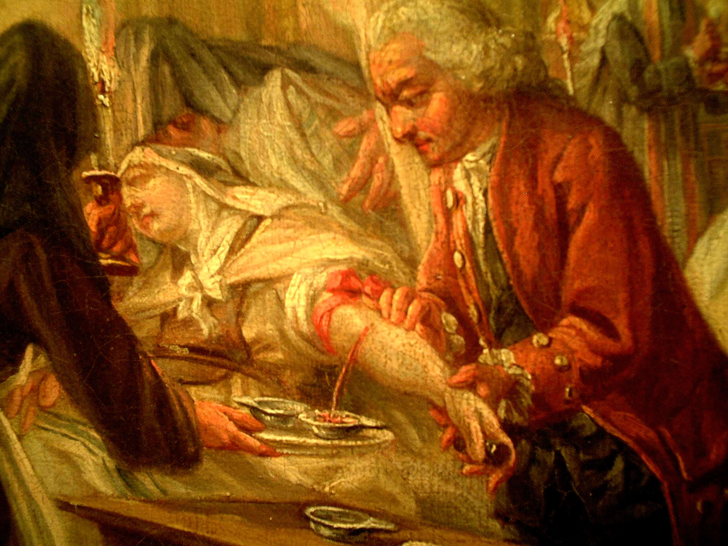 Photograph of a painting at the Saint Denis museum (Seine-Saint-Denis)